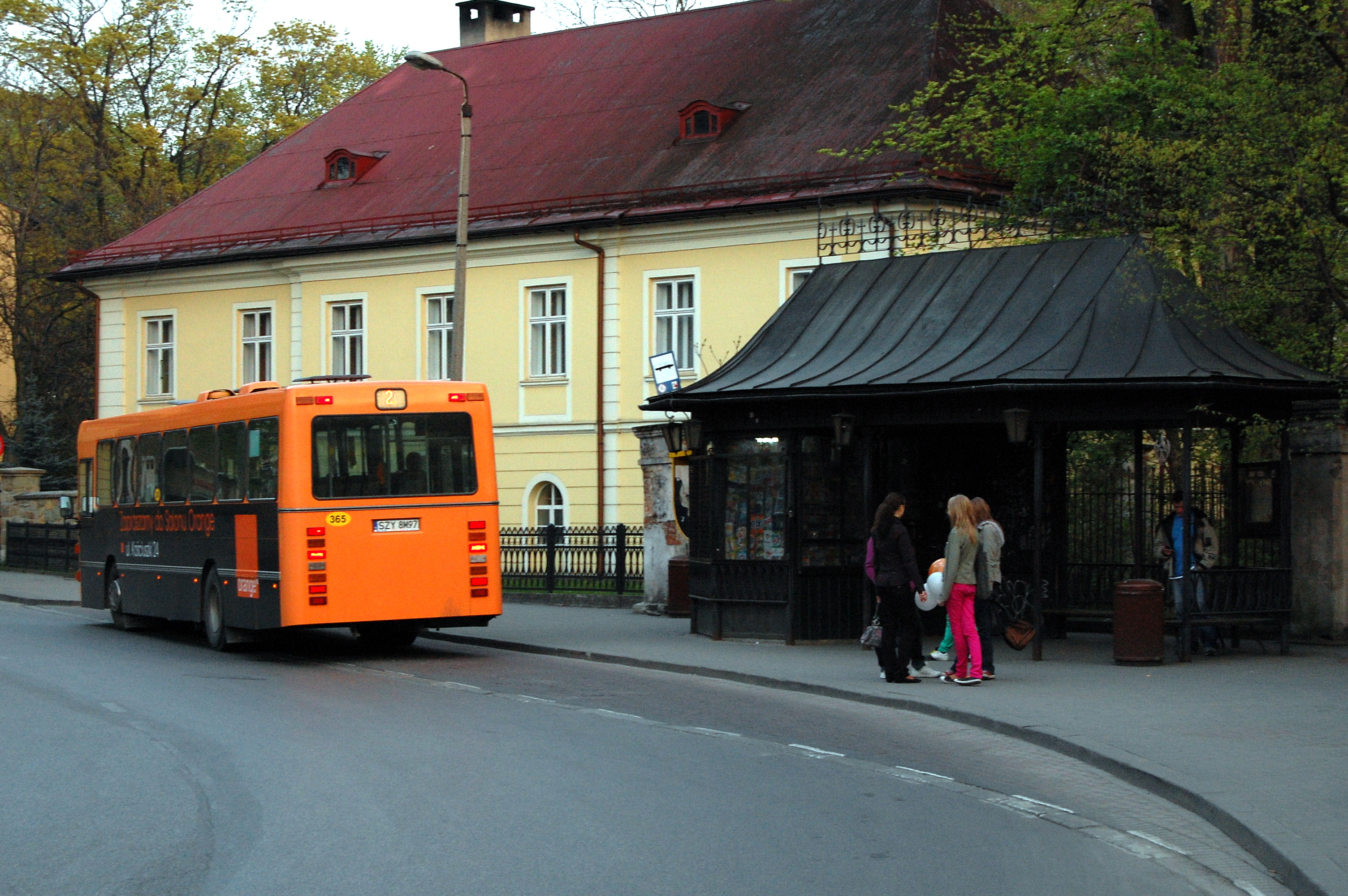 DAB 12-1200B bus (#365) in Żywiec, Poland. Built 1995, MZK Żywiec operator.